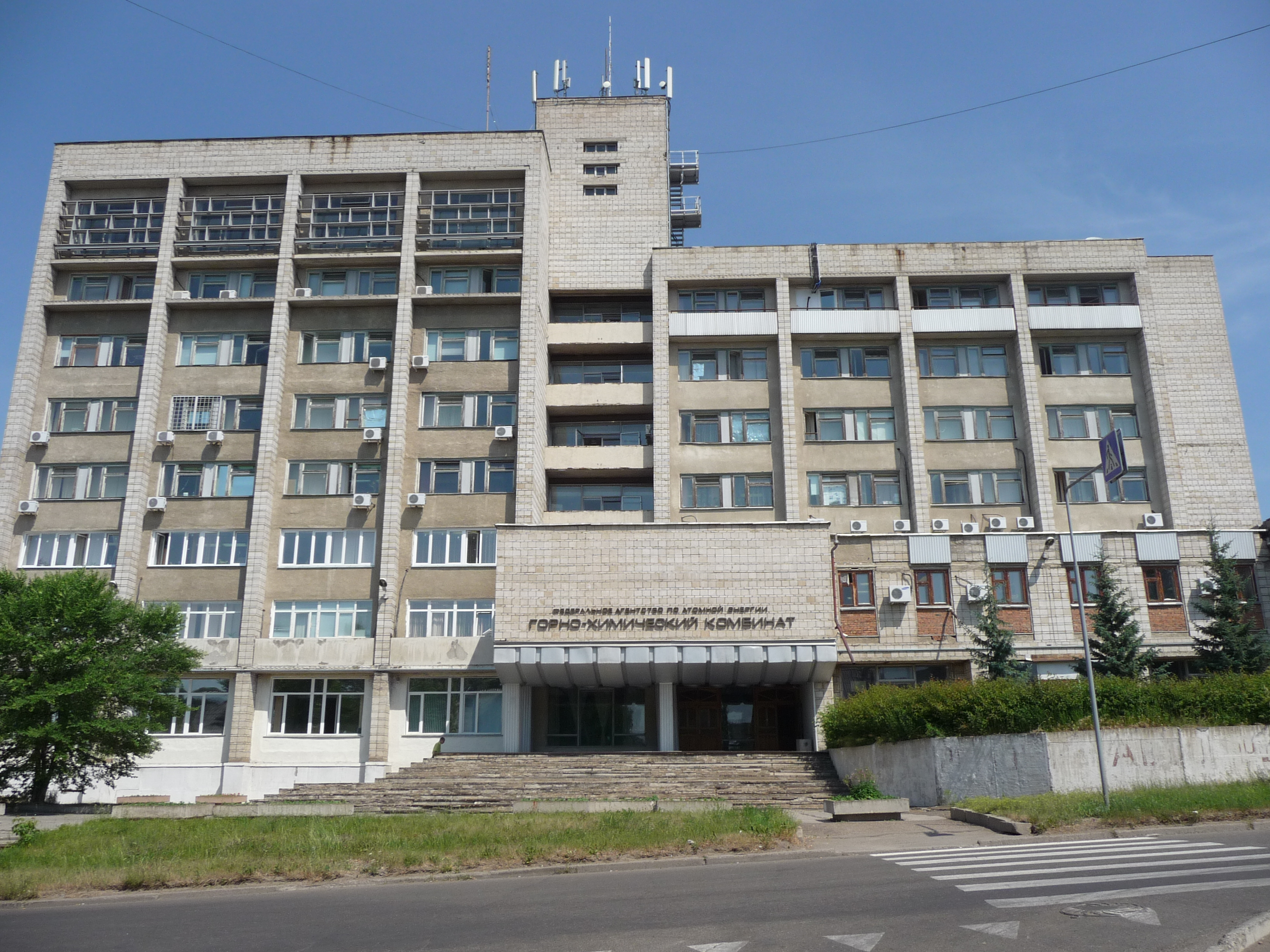 Mining and Chemical Combine administrarion, Russia